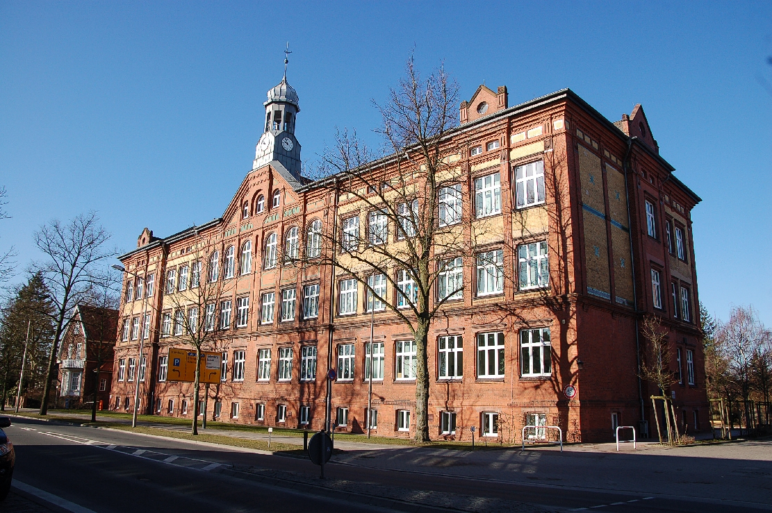 primary school at Cuxhaven, Abendrothstraße